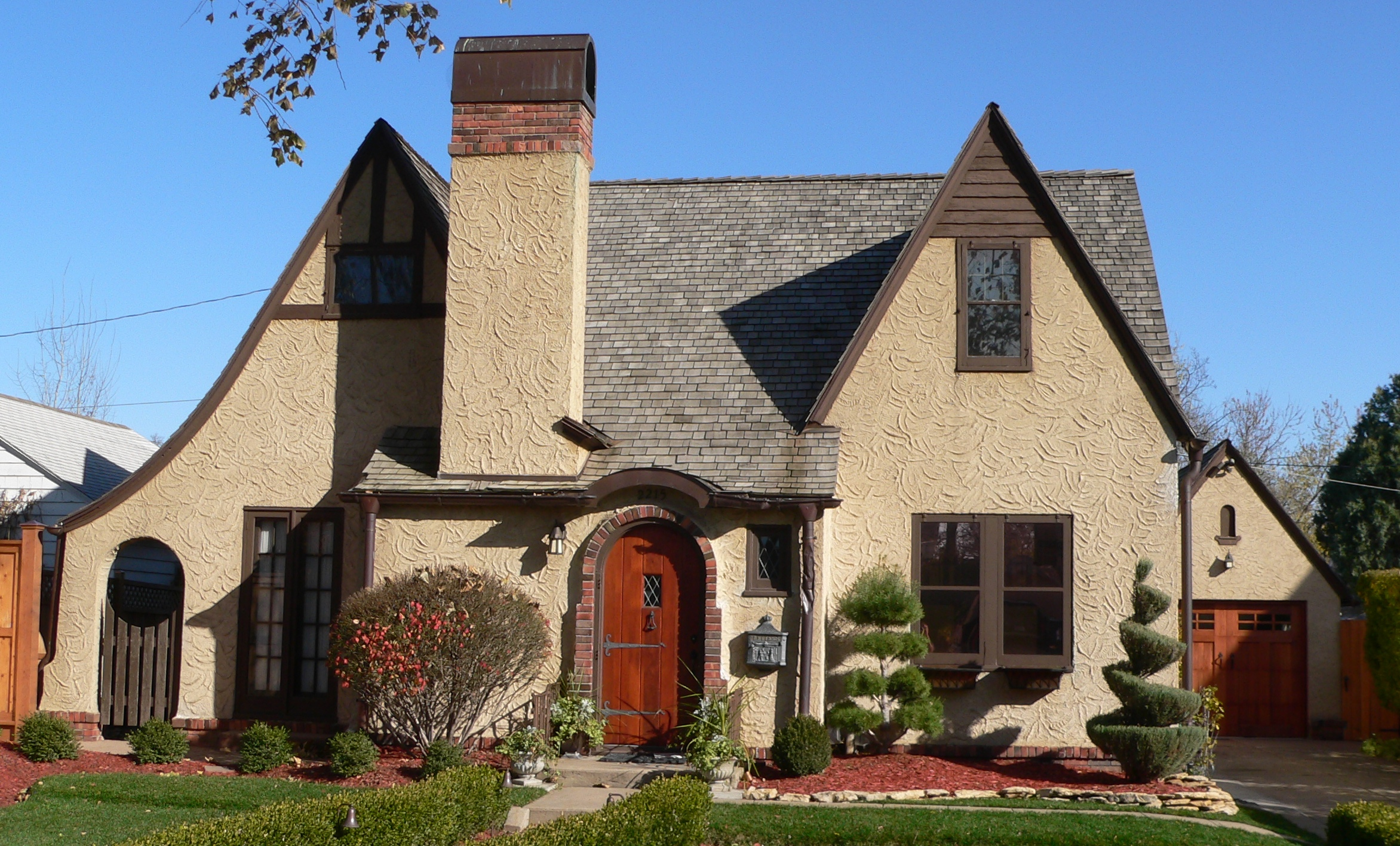 Klehm House at 2215 9th Ave. in Kearney, Nebraska, viewed from the west. The building was designed by Walter Klehm in Tudor Revival style and built in 1931. It is on the National Register of Historic Places.